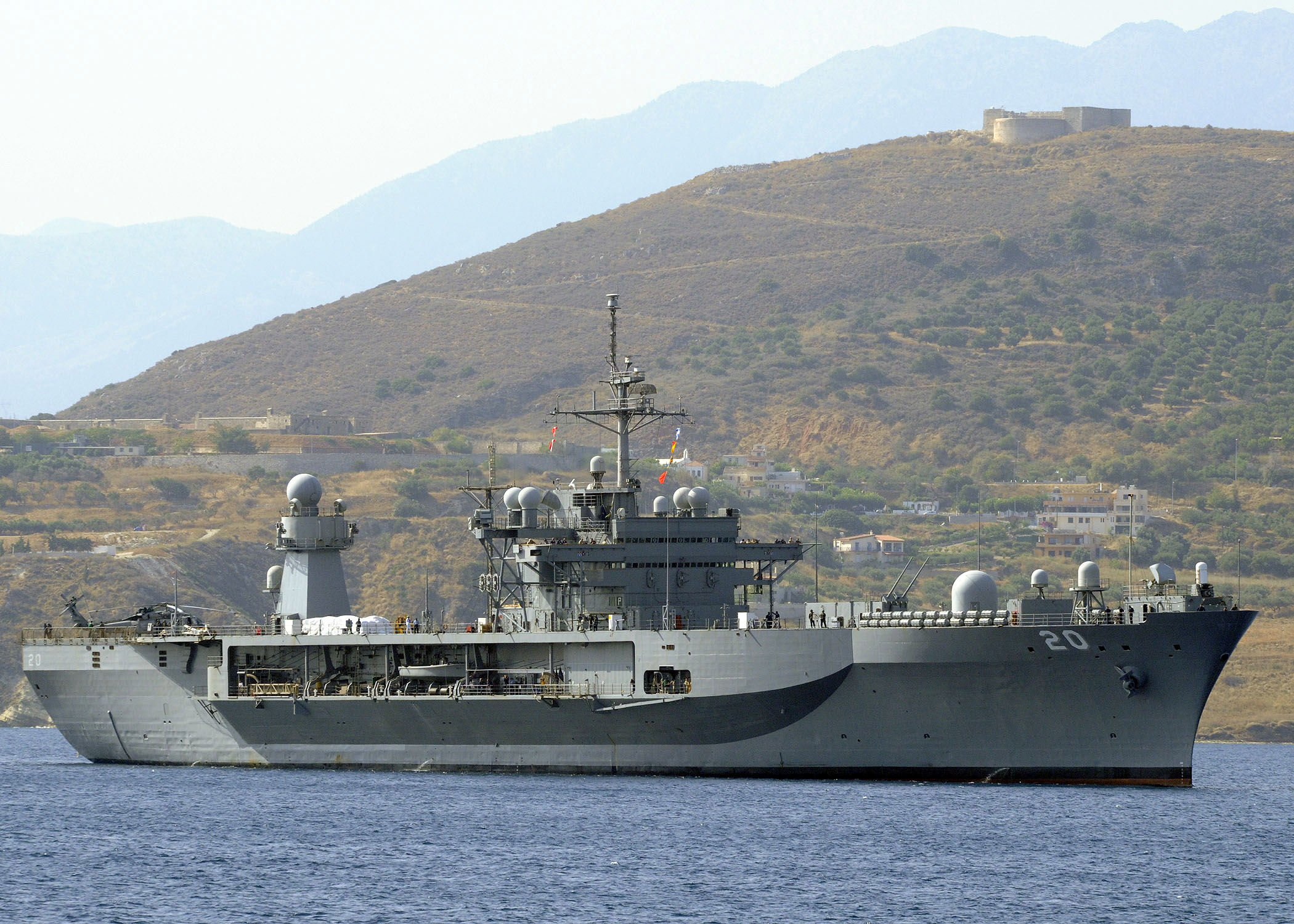 080828-N-0780F-001 SOUDA BAY, Crete (Aug. 28, 2008) The amphibious command ship USS Mount Whitney (LCC/JCC 20) arrives in Souda Bay for a routine port visit. Mount Whitney is homported in Gaeta, Italy, where she recently received humanitarian aid supplies destined for the Republic of Georgia. Mount Whitney will transit to the Black Sea for the delivery of the humanitarian assistance cargo to the Republic of Georgia.